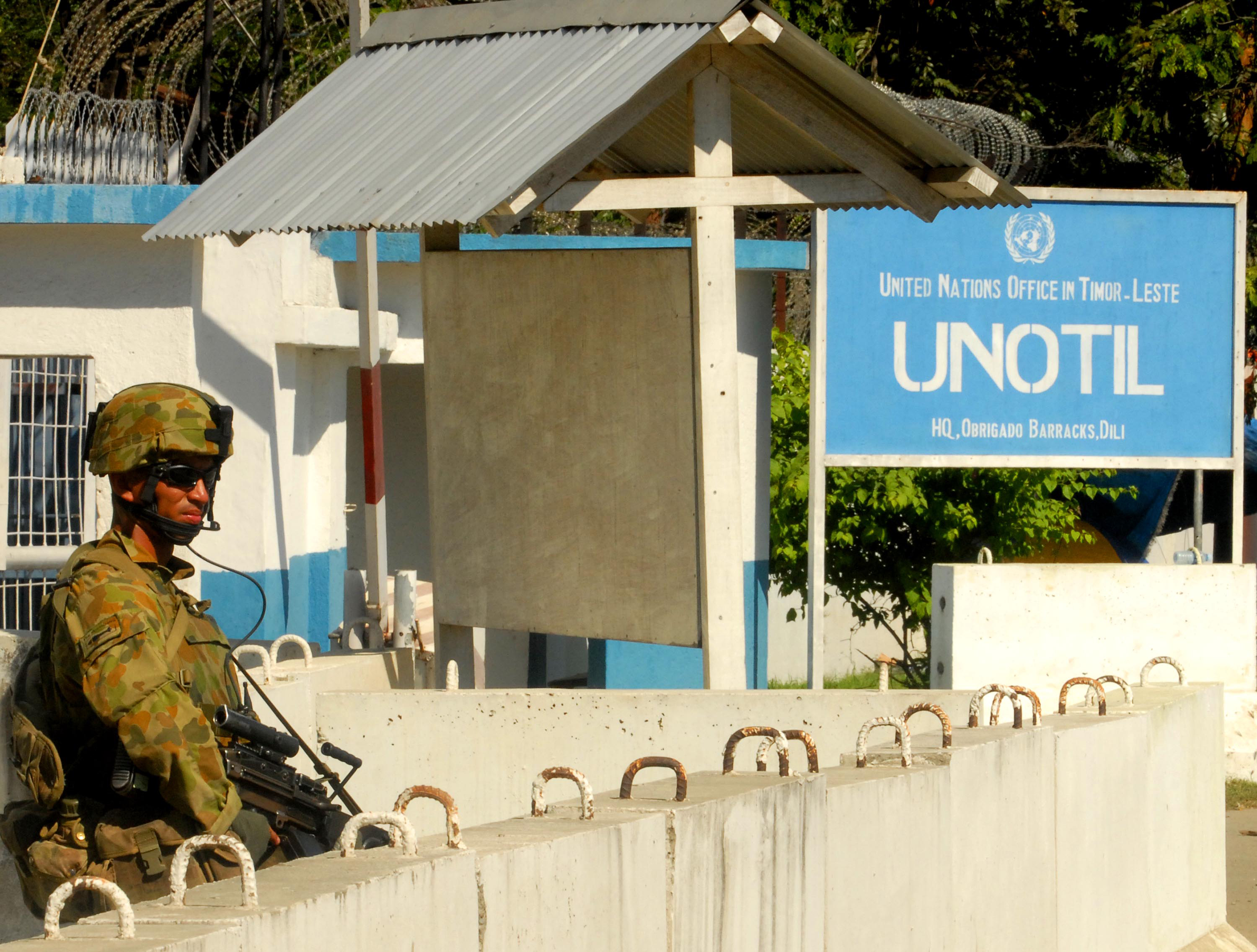 Timor: ISF soldier provides security to UNOTIL compound 'Private Ricky Juzuf maintains security in the compound of the United Nations Office in Dili, Timor-Leste' (May 2006) [Defence]. From